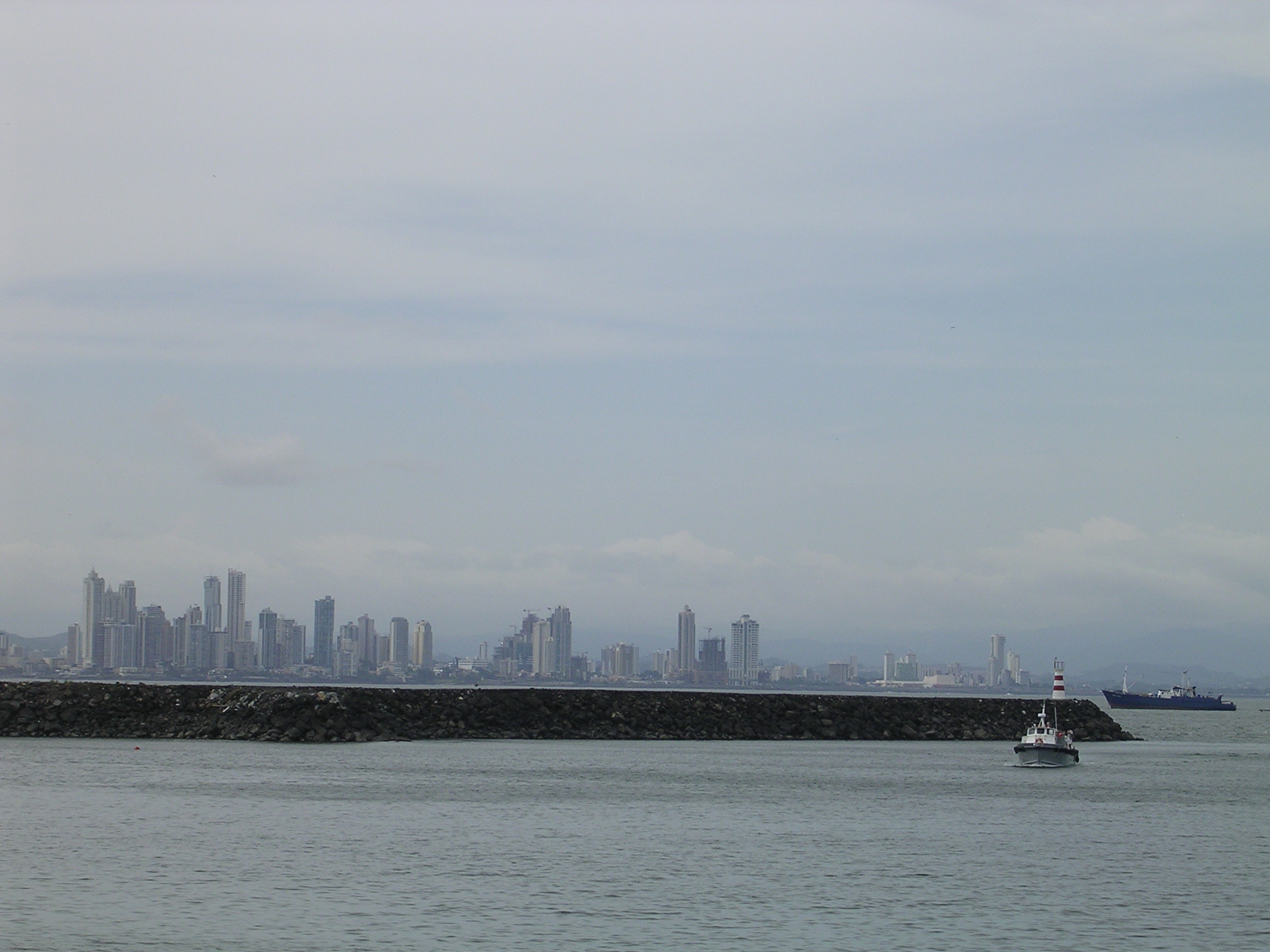 Skyline of Panama City